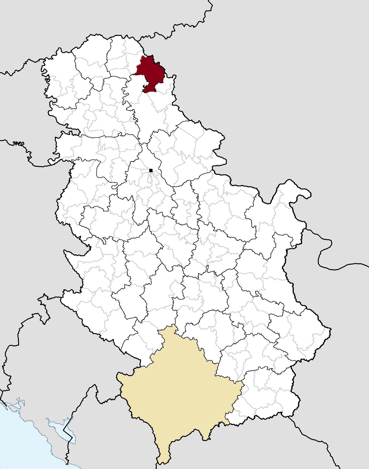 Municipal location in Serbia